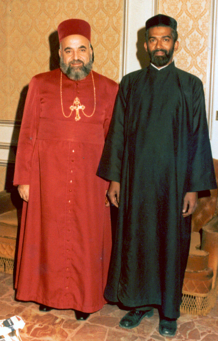 This Photo was taken in 1981 in Damascus. The Priest on the right side of the Photo being Fr. P.M. Cherian